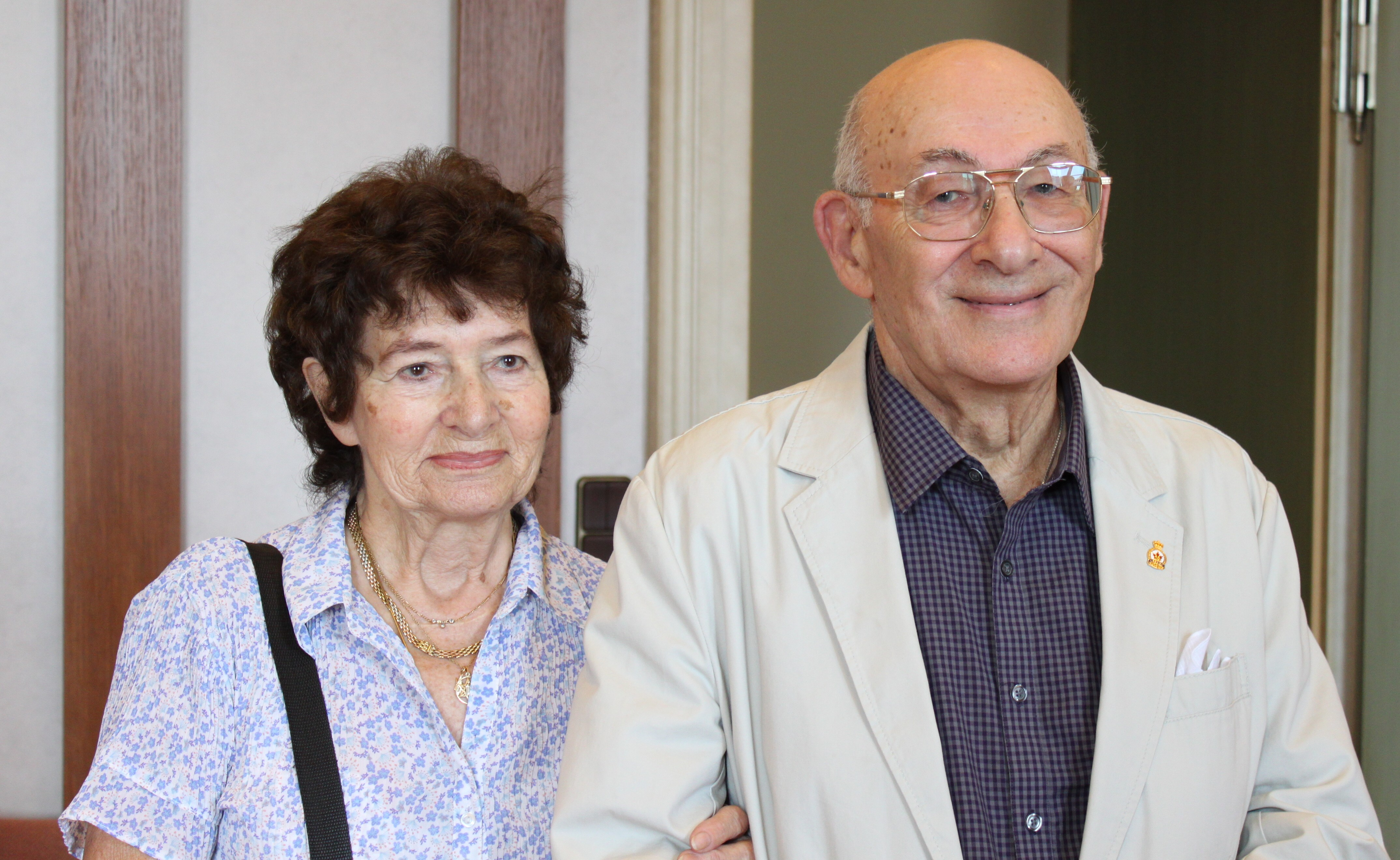 Lottie + Willie Glaser, survivors of the holocaust, in the qtownhall of Fuerth. Willie Glaser received on 3. June 2010 the "Leter fo Honour" from the city of Fürth (Bav.)